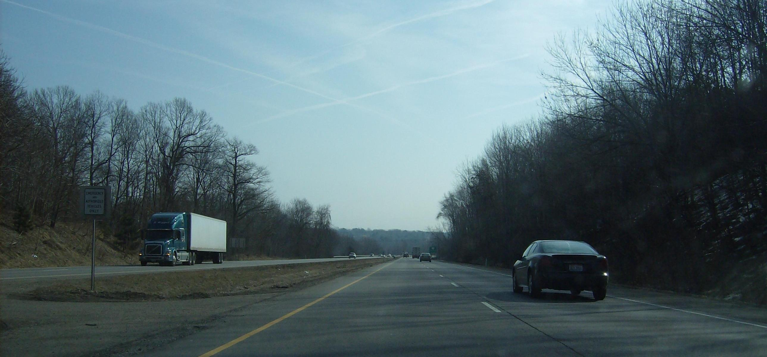 View along Interstate 76 in Wadsworth Township, Medina County, Ohio, United States.